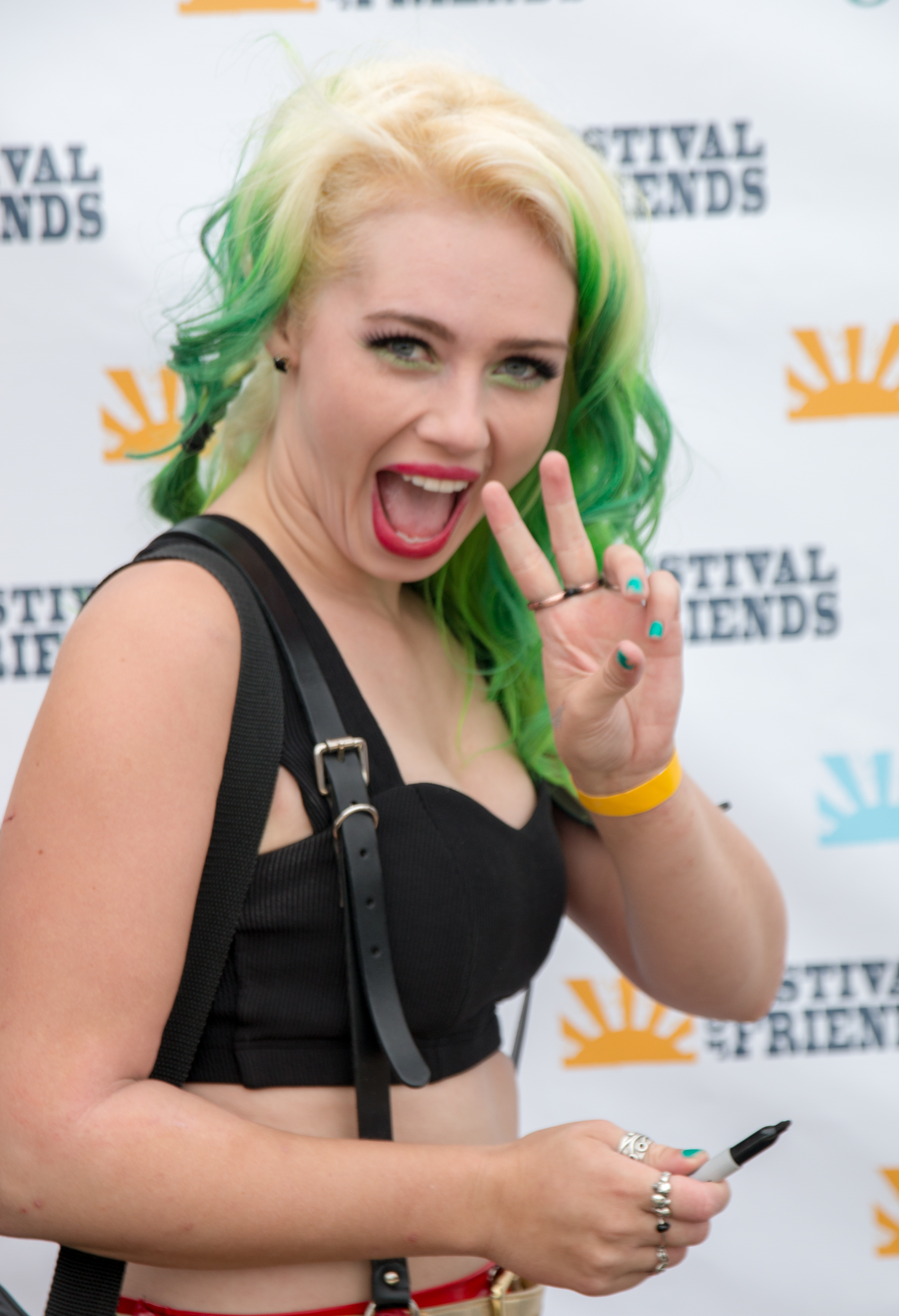 Sever of the band Sumo Cyco (aka Skye Sweetnam) at the 2015 Festival of Friends in Ancaster, ON